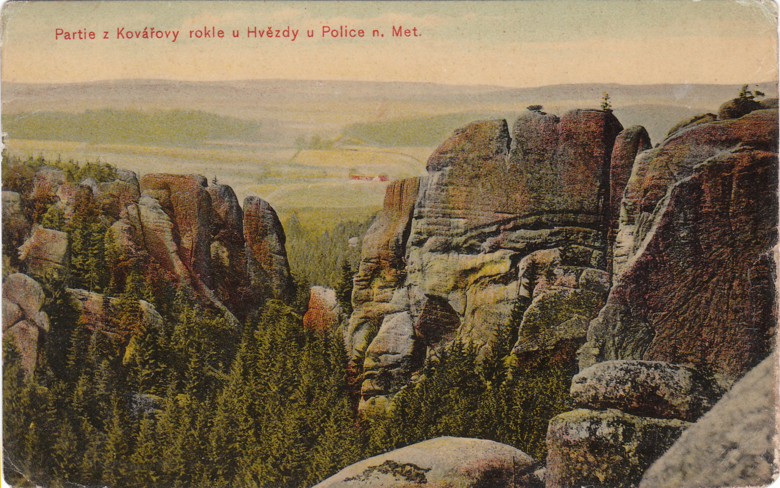 Kovářova rokle, sandstone canyon of the Hlavňovský brook, Czech republic Česky: Kovářova rokle, pískovcový kaňon Hlavňovského potoka, CHKO Broumovské stěny, Česká republika